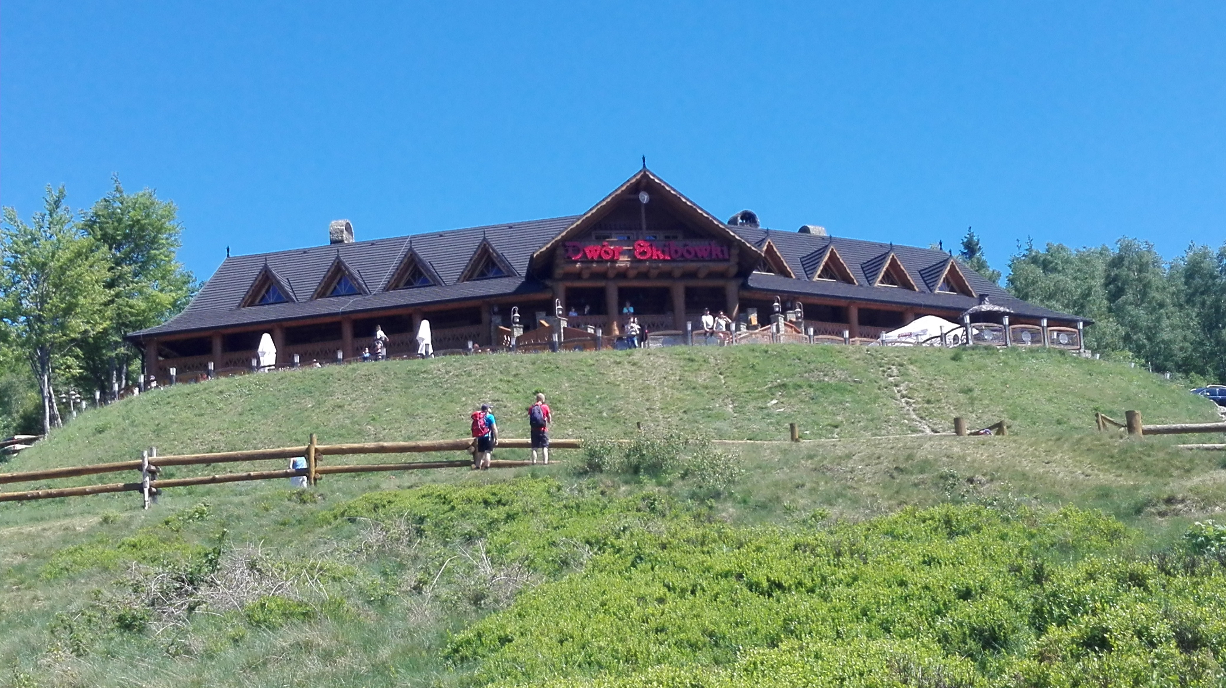 Skibówki Manor Inn in Ustroń